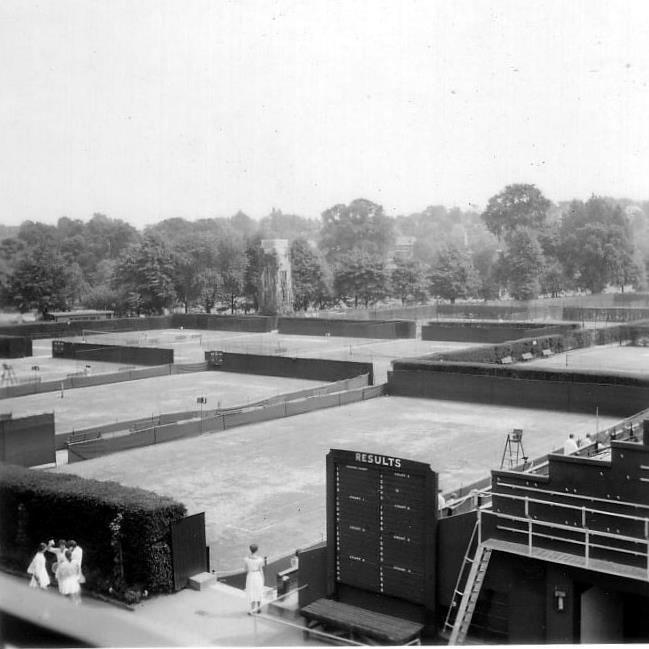 Wimbledon